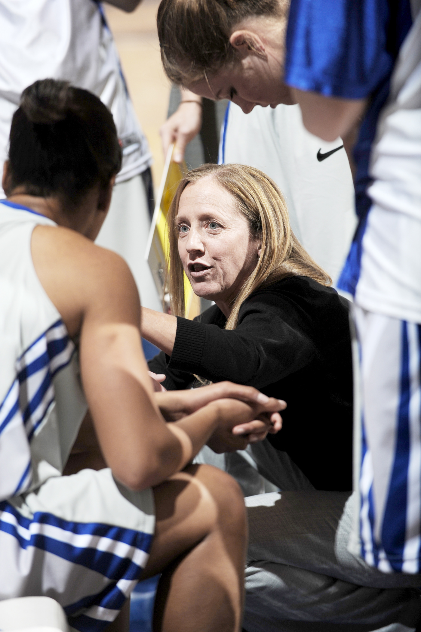 Air Force head coach Ardie McInelly talks to the Falcons during a time out during the U.S. Air Force Academy game against Bradley University at the Academy's Clune Arena Dec. 19, 2009. Air Force lost the game 62-45.